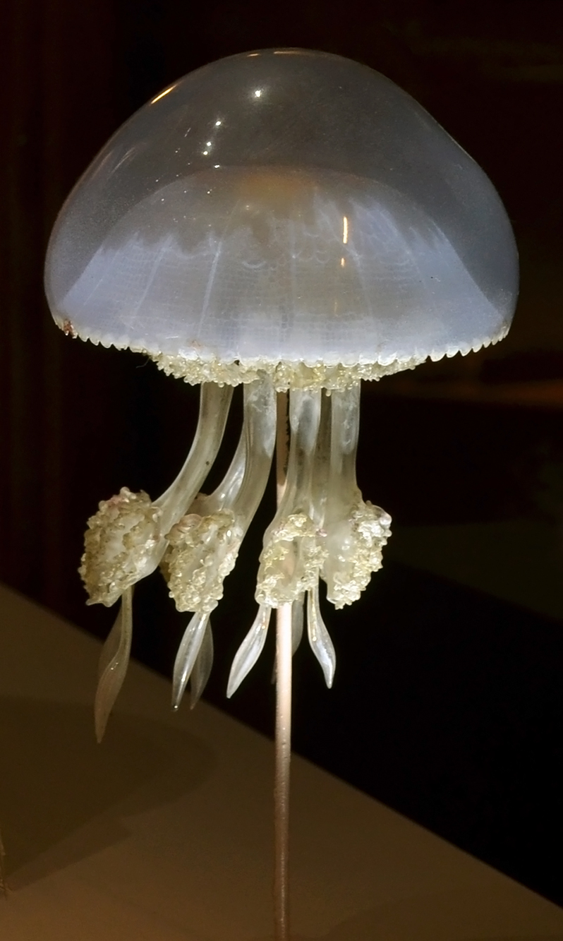 Blaschka glass model in the Muséum d'histoire naturelle de Genève : Rhizostoma pulmo.